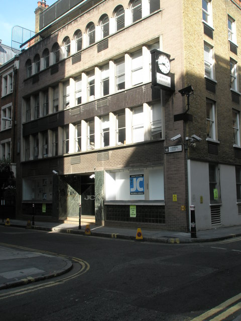 Clock on The Jewish Chronicle Offices in Furnival Street